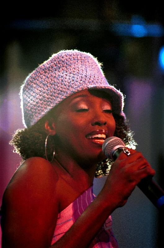 Photo of Conya Doss at the Rock and Roll Hall of Fame in Cleveland, Ohio